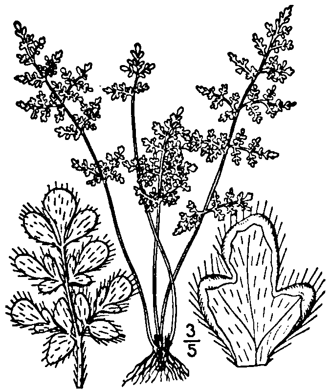 Fig. 80. Cheilanthes feei from the second edition of An Illustrated Flora of the Northern United States, Canada and the British Possessions (New York, 1913)